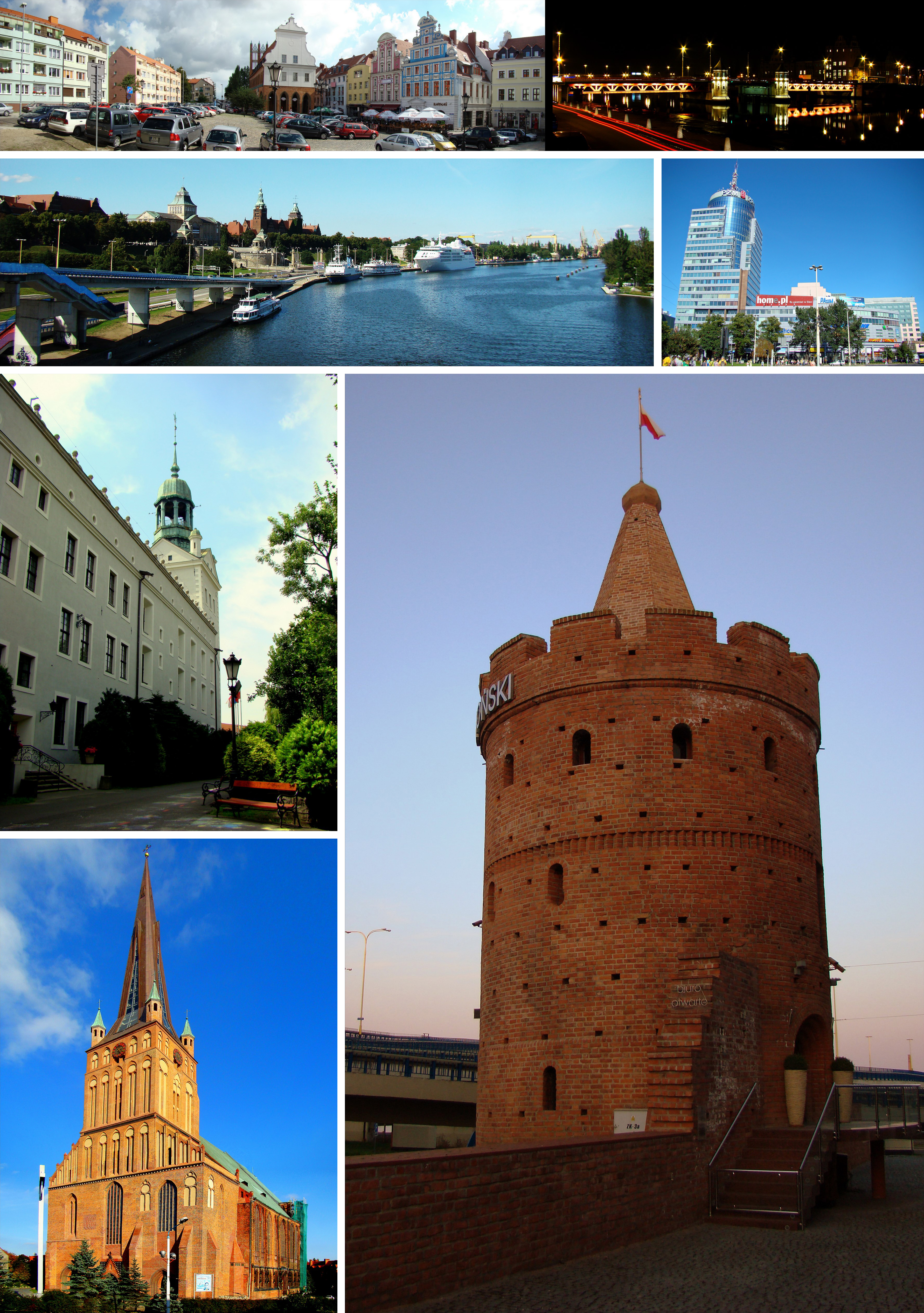 Szczecin, West Pomeranian Voivodeship, Poland